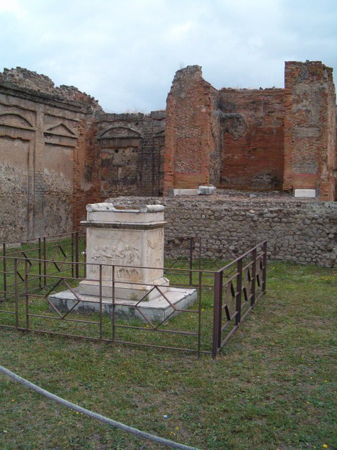 Vespasianus temple, Pompei